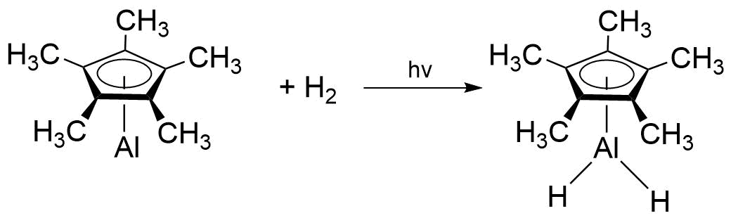 Reaction of (Pentamethylcyclopentadienyl)aluminium(I) with hydrogen to form an Al(III) hydride